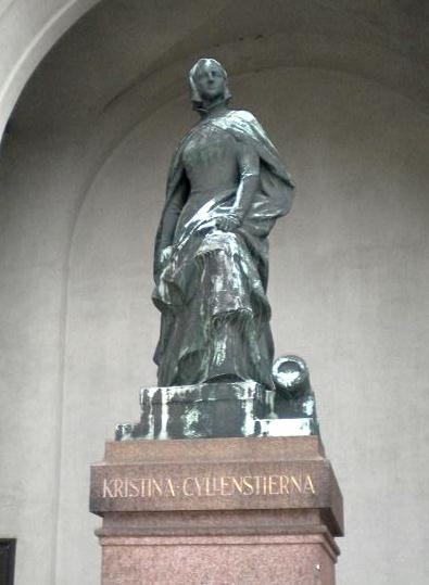 Statue of Christina Gyllenstierna, defender of StockholmPlace: Outer courtyard, Royal Palace, Stockholm, Sweden